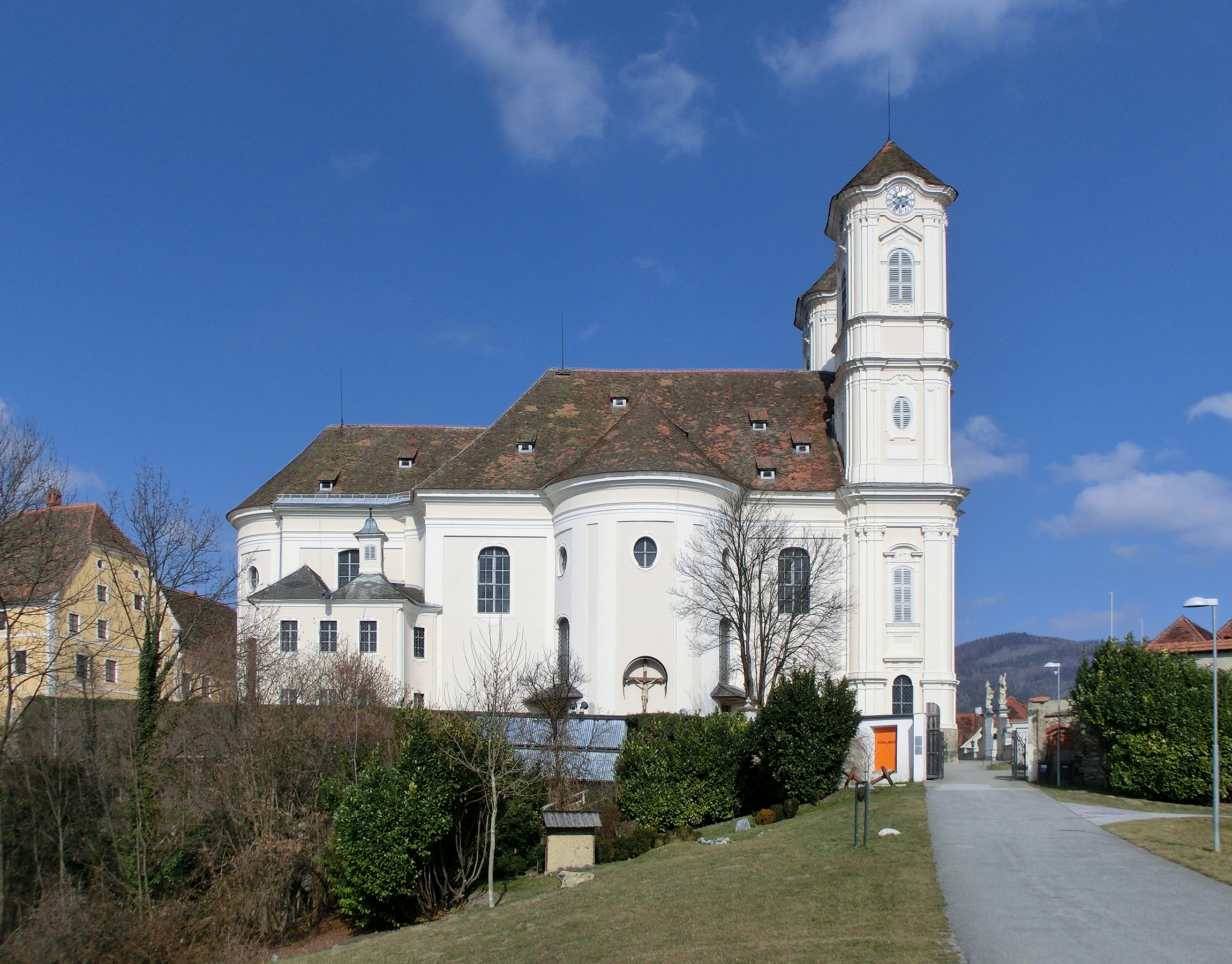 The Weizbergkirche above the town of Weiz, Eastern Styria.